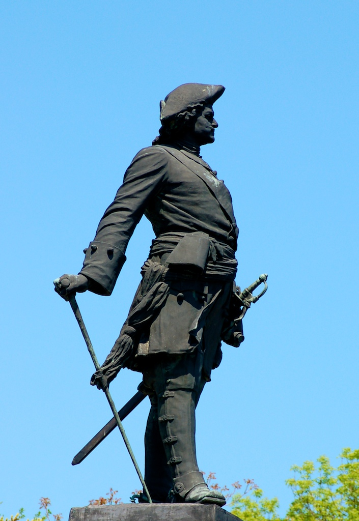 Peter the Great monument in Taganrog, closeup